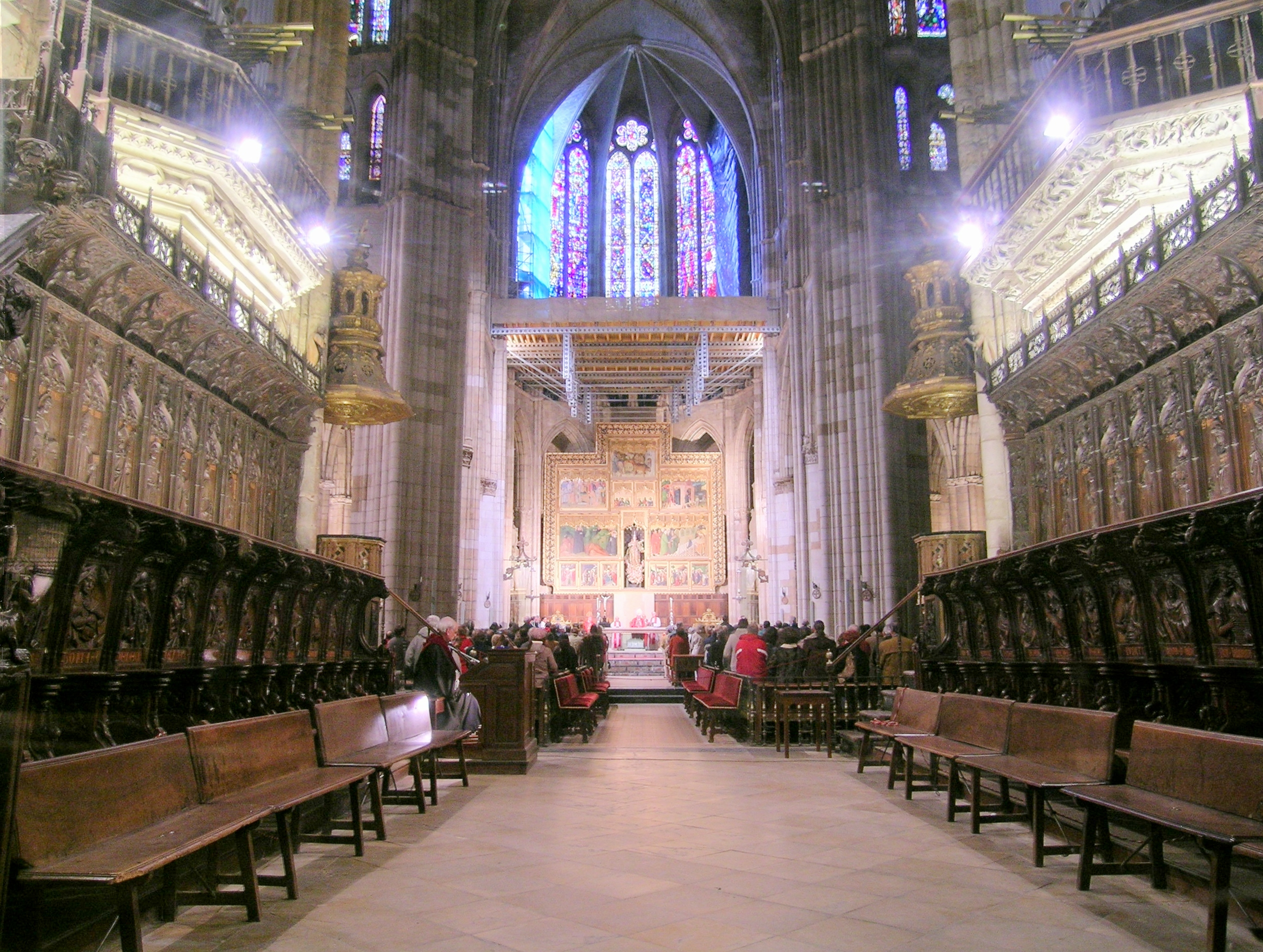 Inside the cathedral of Leon, in Spain. This is the rendered version of an HDR picture I have created using two different shots, taken with two different exposures. I aligned those pictures using autopano and hugin, then I created the HDR and tone-mapped it using qtpsfgui. I have used the Reinhard '02 algorithm with the following settings: key=0.18 phi=1 pregamma=1 postgamma=0.9 Then I post-processed it with Gimp